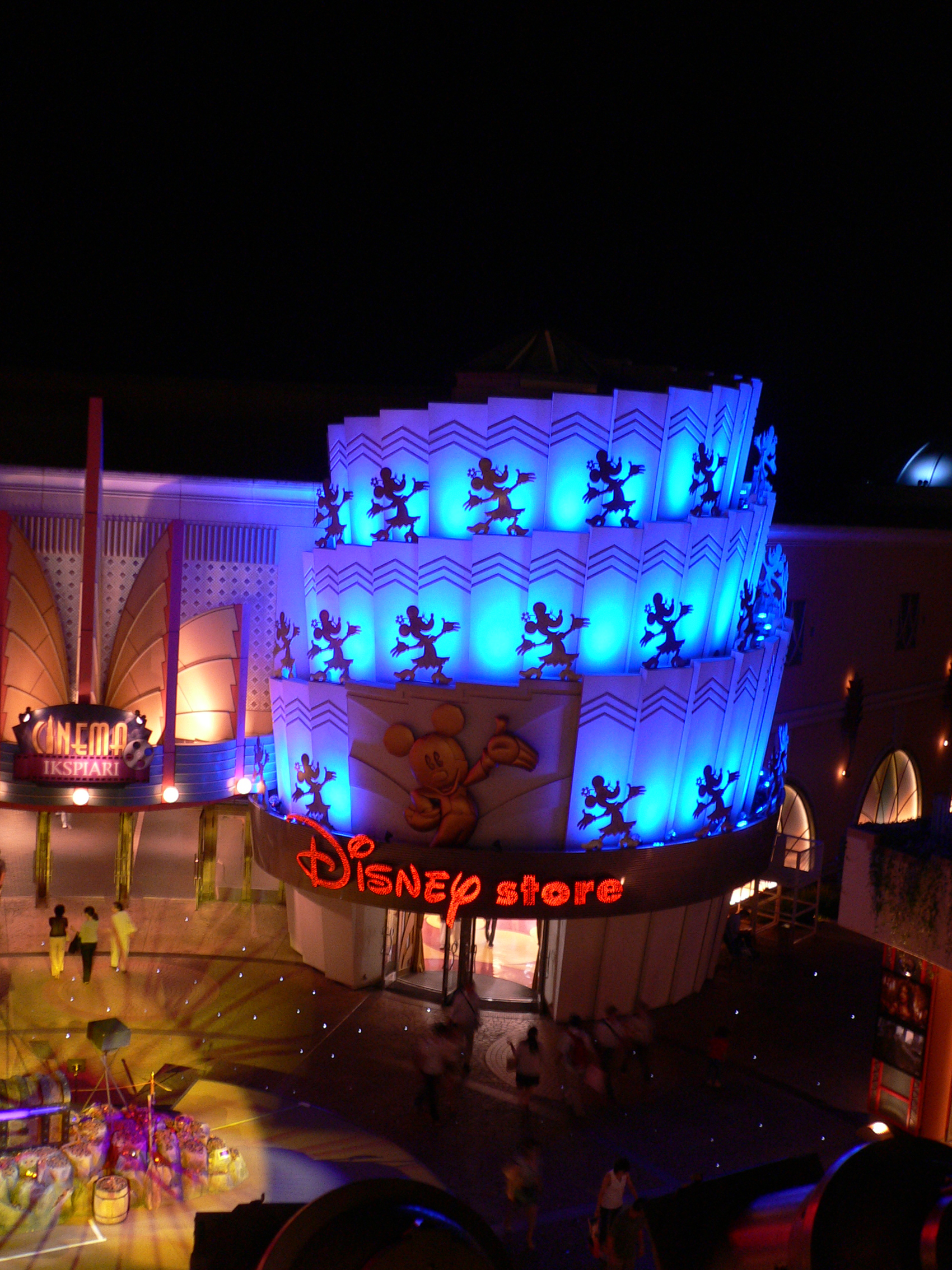 Disney Store at the Ikspiari entertainment complex in Tokyo Disney Resort, based off the Downtown Disney concept.